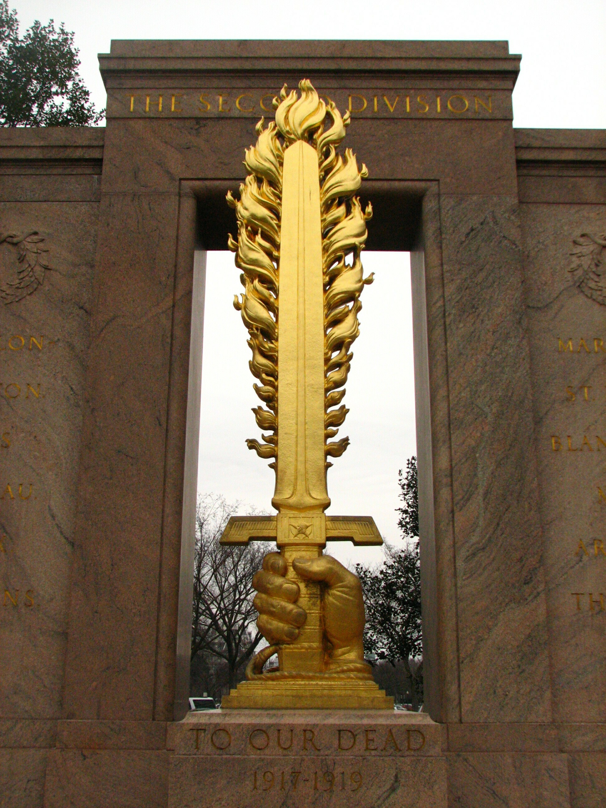 2nd Division Memorial in Washington DC. Sculpted by James Earle Fraser.